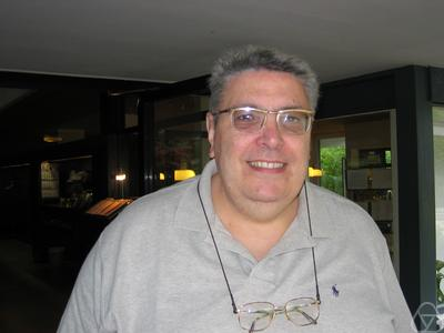 Photo of Antonio Ambrosetti